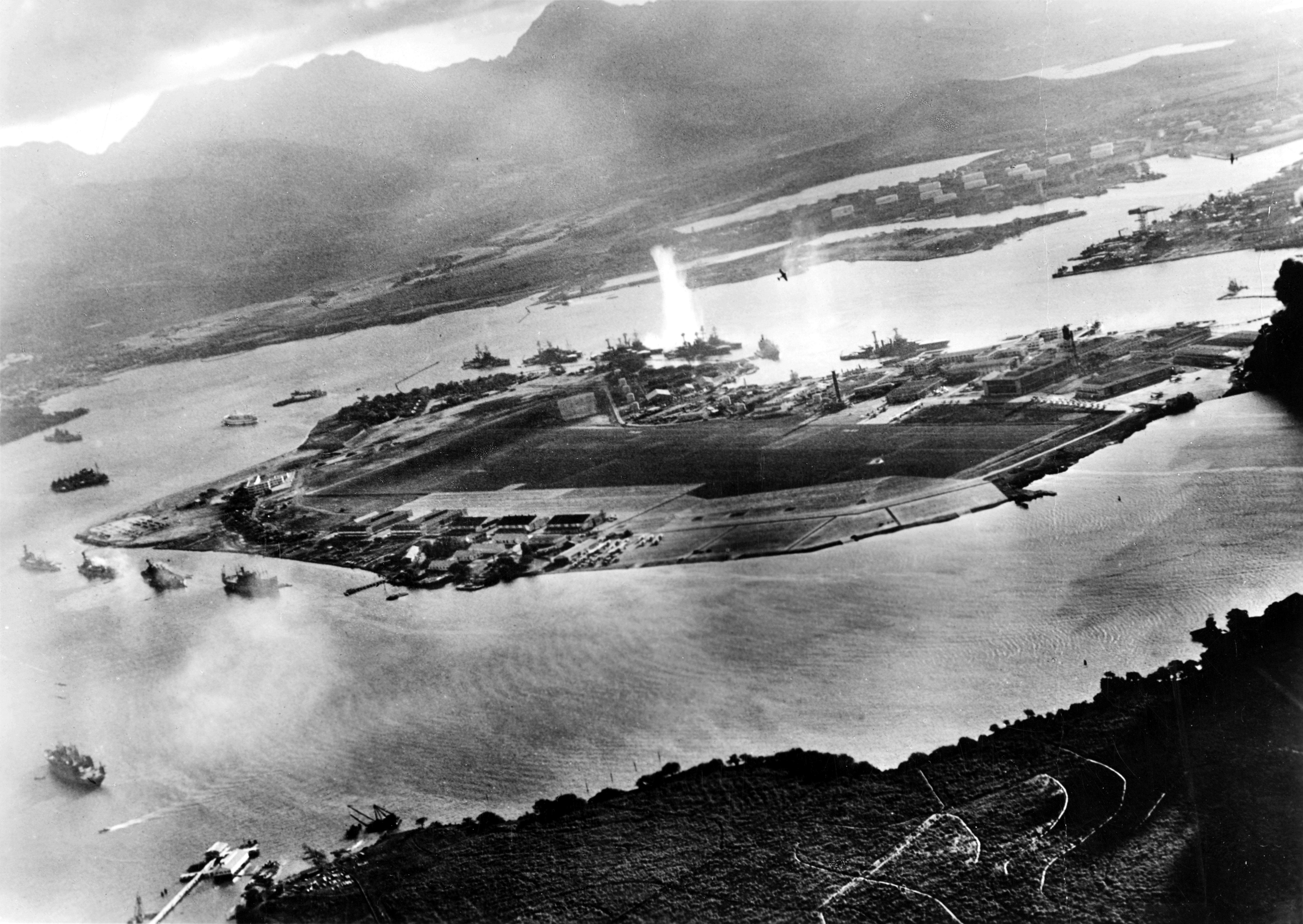 Photograph taken from a Japanese plane during the torpedo attack on ships moored on both sides of Ford Island shortly after the beginning of the Pearl Harbor attack. View looks about east, with the supply depot, submarine base and fuel tank farm in the right center distance. A torpedo has just hit USS West Virginia on the far side of Ford Island (center). Other battleships moored nearby are (from left): Nevada, Arizona, Tennessee (inboard of West Virginia), Oklahoma (torpedoed and listing) alongside Maryland, and California. On the near side of Ford Island, to the left, are light cruisers Detroit and Raleigh, target and training ship Utah and seaplane tender Tangier. Raleigh and Utah have been torpedoed, and Utah is listing sharply to port. Japanese planes are visible in the right center (over Ford Island) and over the Navy Yard at right. U.S. Navy planes on the seaplane ramp are on fire. Japanese writing in the lower right states that the photograph was reproduced by authorization of the Navy Ministry.